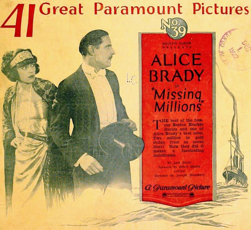 Advertisement for the American drama film Missing Millions (1922) with Alice Brady and David Powell, on the front cover of the December 2, 1922 Exhibitor's Trade Review.